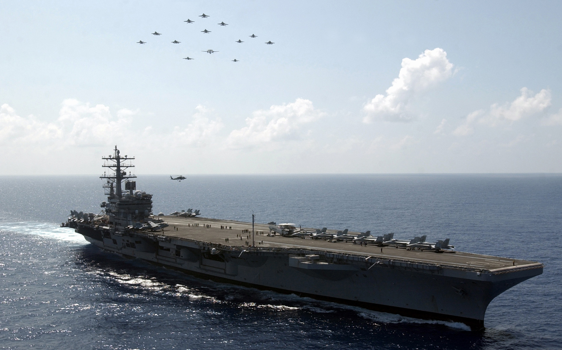 Pacific Ocean (June 27, 2006) - Carrier Air Wing Fourteen (CVW-14) passes over the Nimitz-class aircraft carrier USS Ronald Reagan (CVN 76) in formation during practice of an air show. Reagan and embarked Carrier Air Wing One Four (CVW-14) are currently on a regularly scheduled deployment in support of the global war on terrorism as well as conducting maritime security operations (MSO) in the region. U.S. Navy photo by Photographer's Mate 2nd Class Aaron Burden (RELEASED)